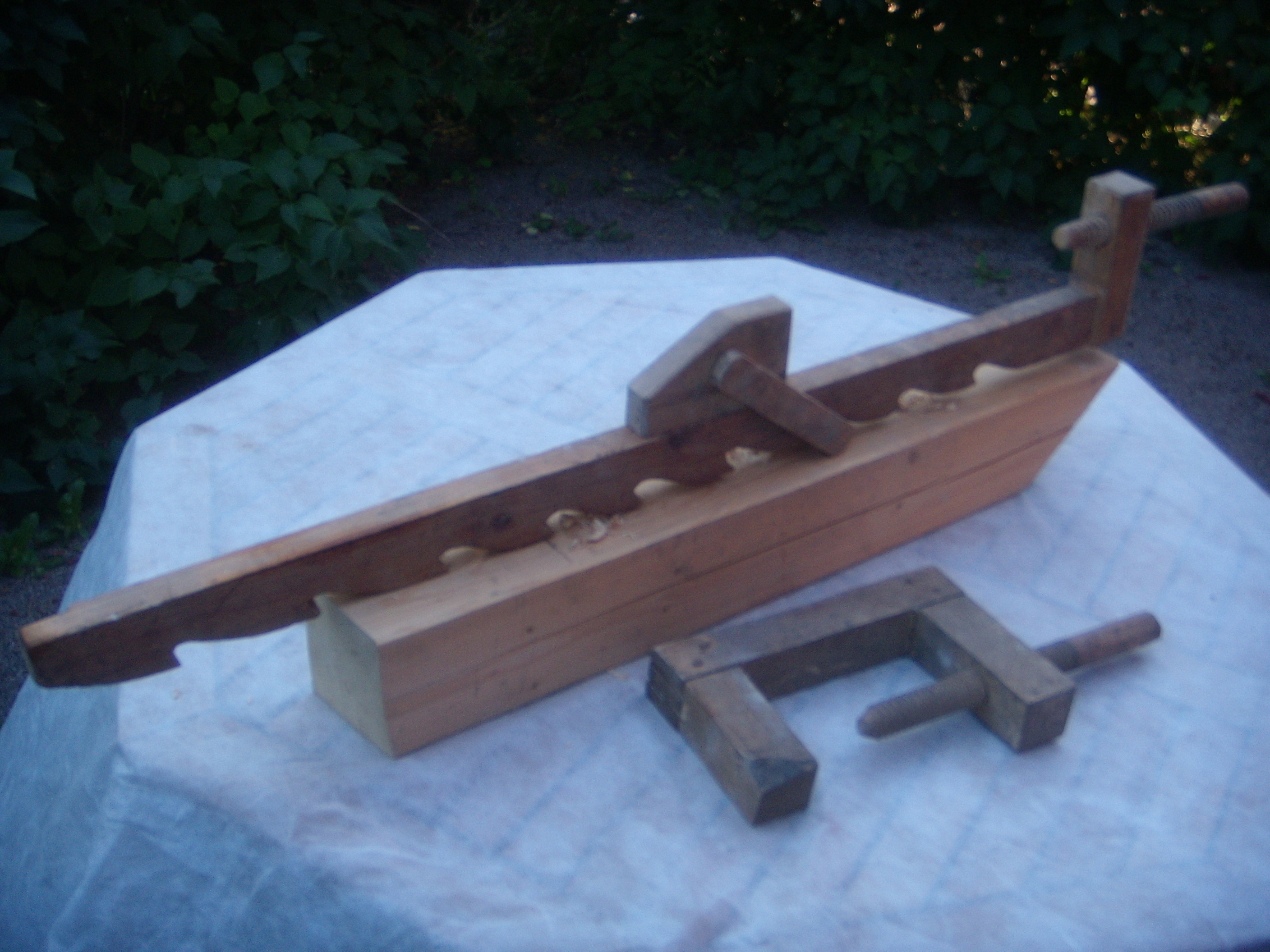 Clamp (tool), a older model in wood.